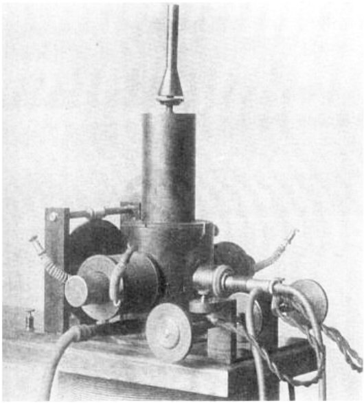 Prototype arc converter (Poulsen arc) radio transmitter, built by US electrical engineer Valdemar Poulsen in 1903. One of the first continuous wave radio transmitters, it was used in the first AM broadcasting stations until the early 1920s, when it was superseded by vacuum tube transmitters. It consists of a DC electric arc in a chamber filled with either hydrogen or other hydrocarbon gas (center) between the poles of an electromagnet (horizontal cylinders front and back). The anode (right) is water-cooled, the cathode is made of carbon and is rotated continuously (mechanism, rear). The arc is connected to a series resonant circuit (not shown) consisting of a capacitor and inductor, which in turn is connected to a wire antenna. The negative resistance of the arc cancels the positive resistance inherent in the resonant circuit, exciting continuous sinusoidal oscillating currents in the resonant circuit, which are radiated by the antenna as radio waves. The arc oscillator was actually invented by Elihu Thomson in 1892, but the frequency of his device was limited to about 10 kHz. By operating it in a hydrogen atmosphere with a cooled anode, Poulsen was able to raise the frequency into the longwave radio range so it could be used for a radio transmitter.